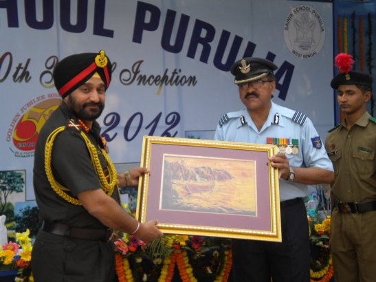 General Bikram Singh at Golden Jubilee Inauguration of Sainik School Purulia West Bengal on 29 Jan 2011